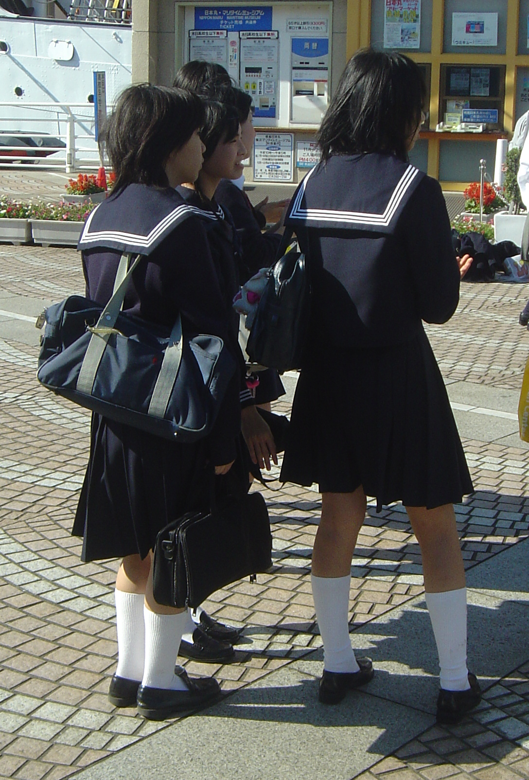 Japanese school uniform, Yohohama, Japan